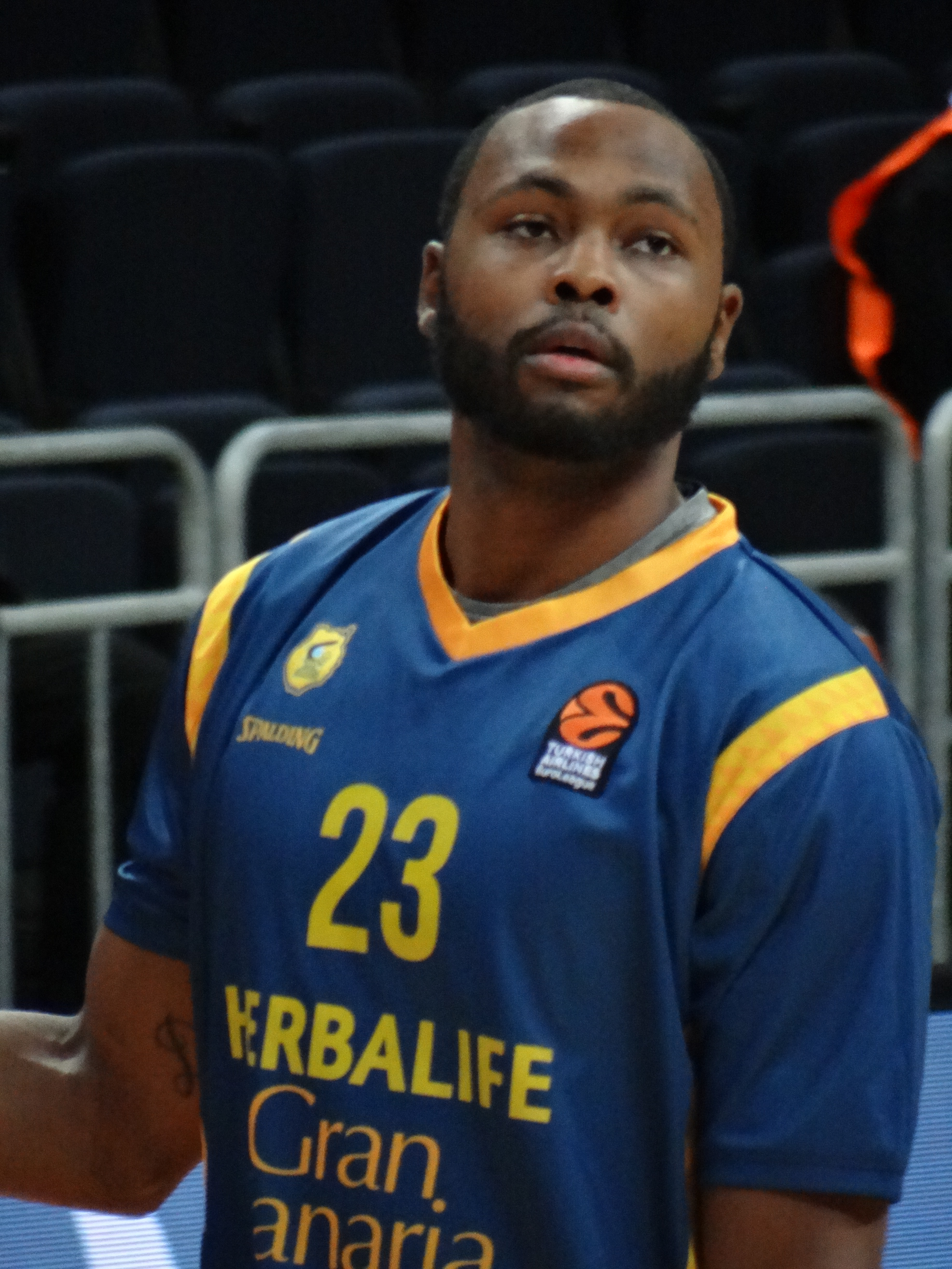 Christopher Evans (basketball) 23 CB Gran Canaria EuroLeague 20181012